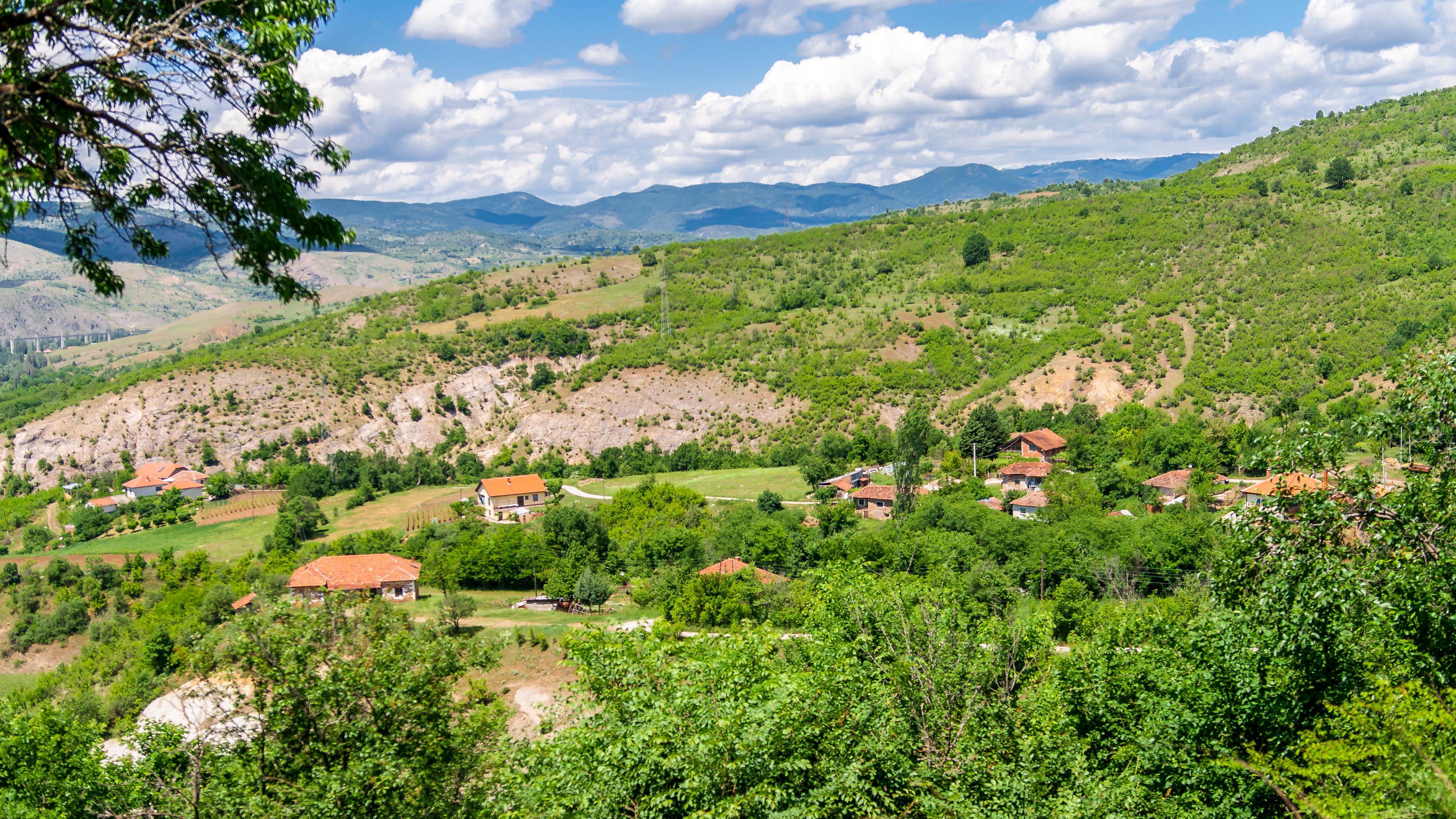 Panoramic photo of one part of the village Živalevo